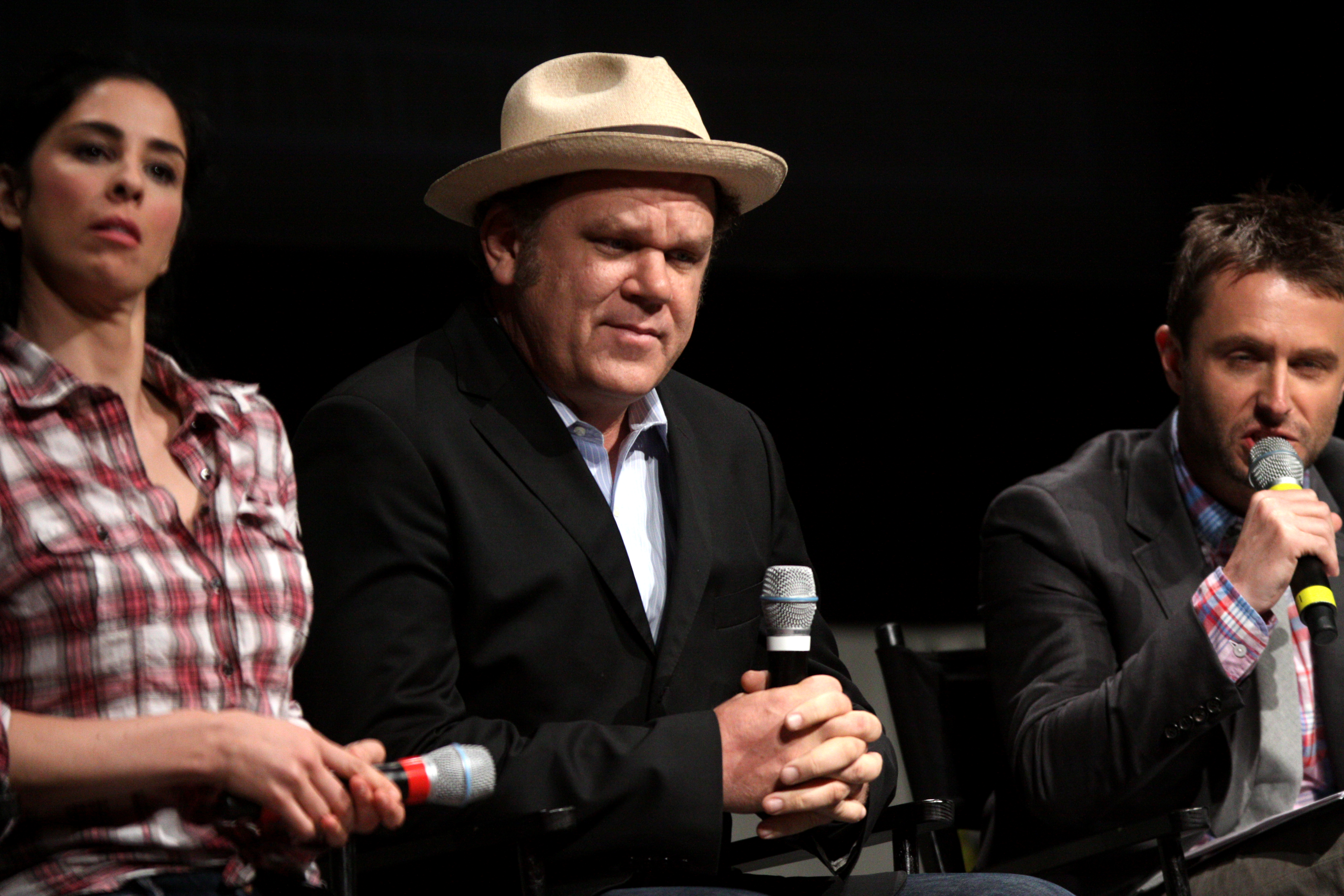 Sarah Silverman, John C. Reilly & Chris Hardwick speaking at the 2012 San Diego Comic-Con International in San Diego, California.